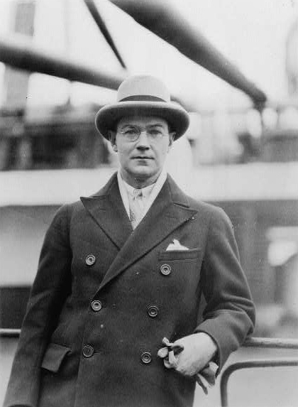 Philip Barry, half-length portrait, standing, facing front